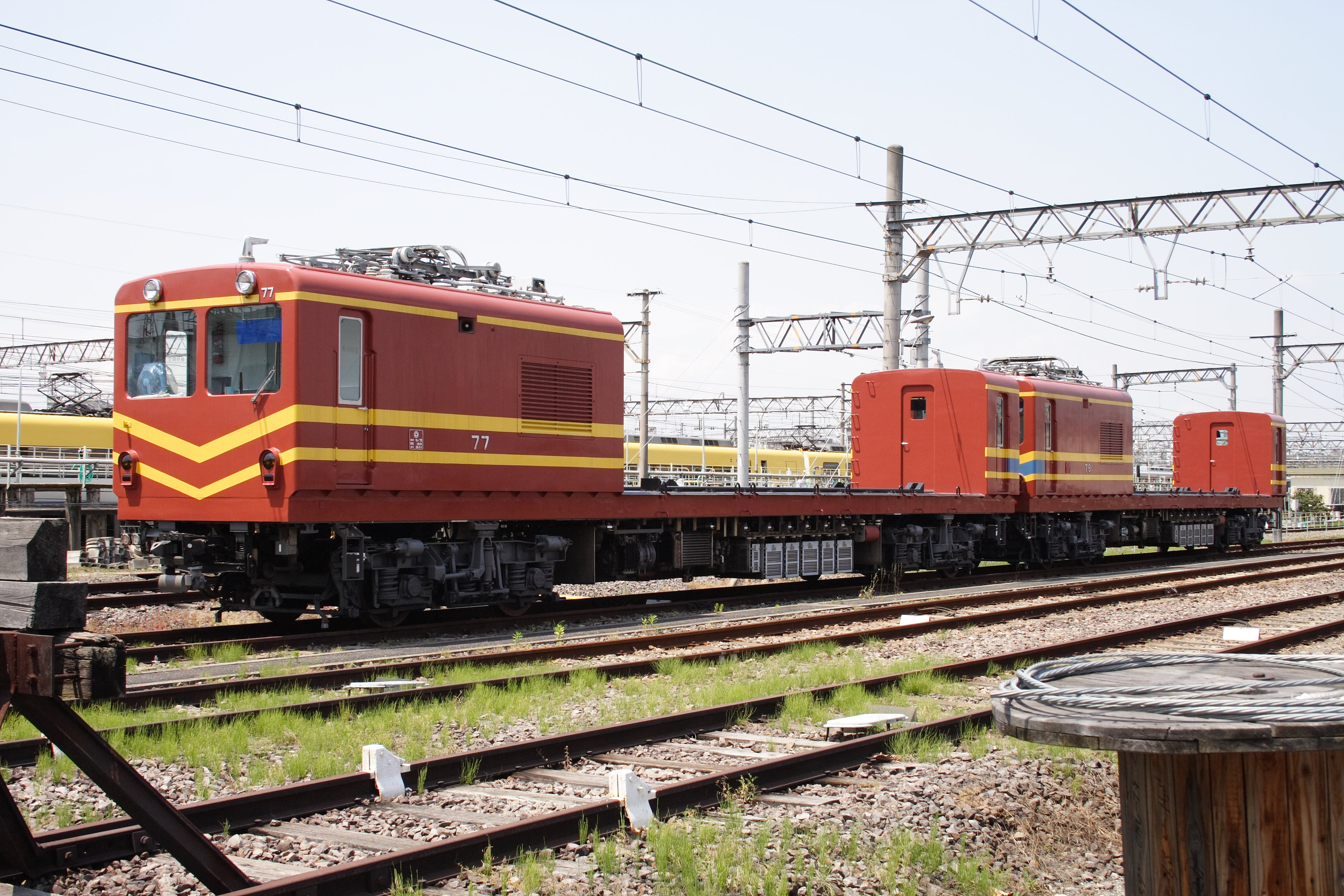 近畿日本鉄道・モト75形電動貨車/series MOTO-75 electric cargo-gondola of Kintetsu Corporation